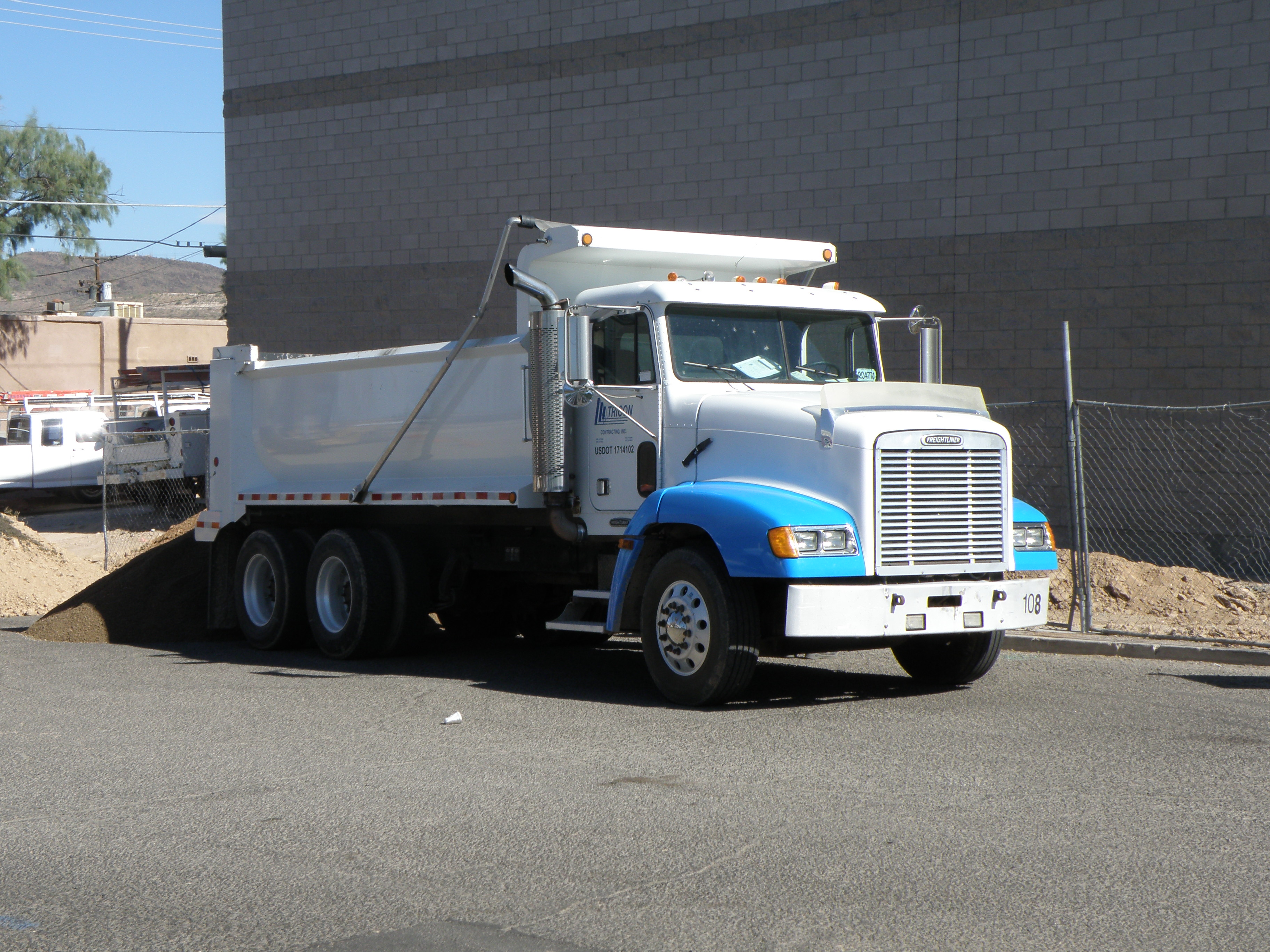 Freightliner FLD 112 dump truck.